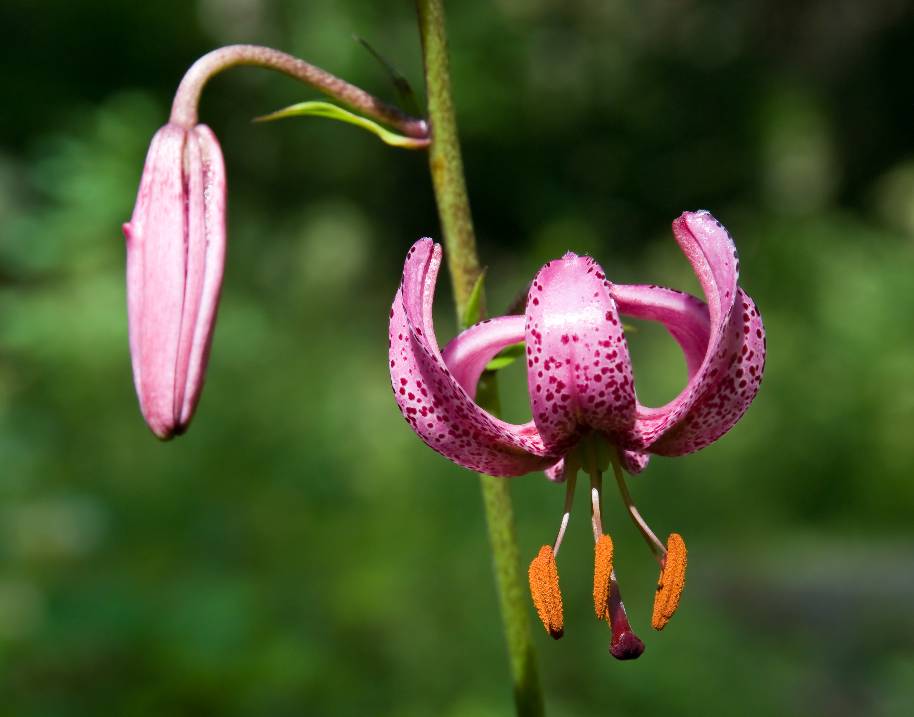 Turk's cap lily (Lilium martagon) in Kakskerta island, Turku.